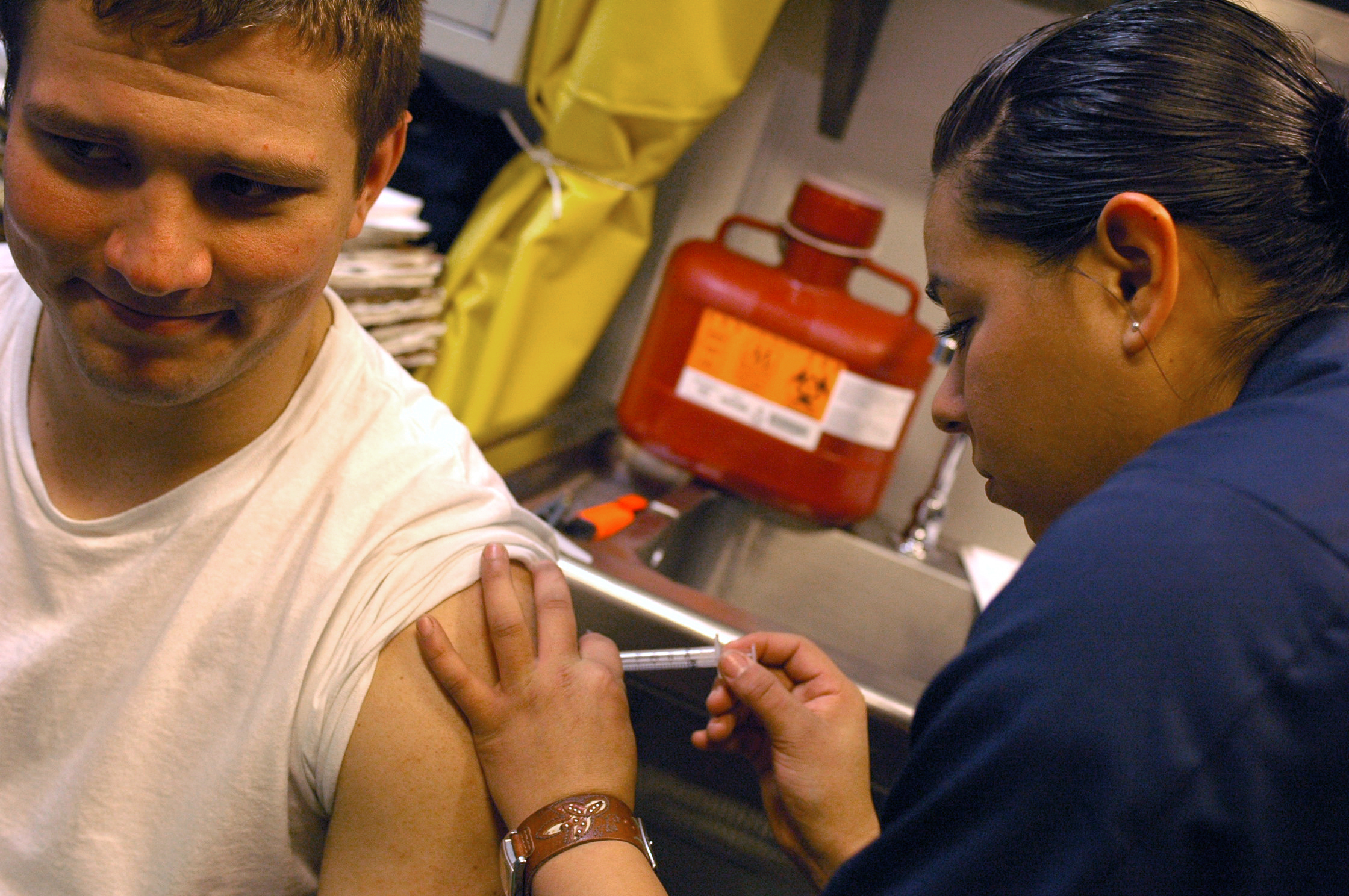 SOUTH CHINA SEA (Apr. 6, 2007) - Airman Sandra Valdovinos, from Delano, Calif., administers Airman Adam Helton, from Mesa, Ariz., a Hepatitis B vaccine for his annual birth month recall (BMR) aboard the aircraft carrier USS Ronald Reagan (CVN 76). BMR's are given every month to make sure Sailors are updated on their shots. The Ronald Reagan Carrier Strike Group (CSG) is underway on a surge deployment in support of U.S. military operations in the Western Pacific. U.S. Navy Photo by Mass Communication Specialist 3rd Class Joanna M. Rippee (RELEASED)